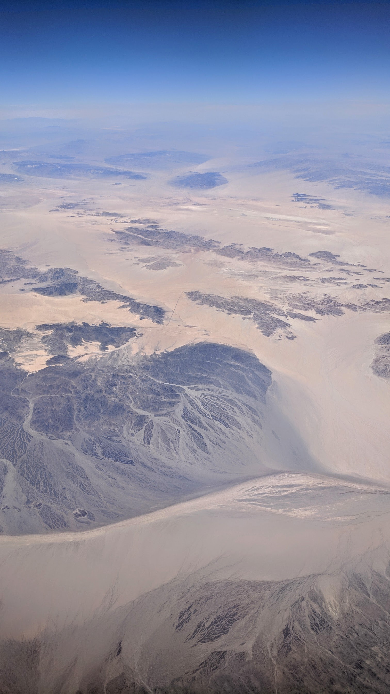 Aerial view of the desert wilderness area in the northeast corner of Joshua Tree National Park, and the transition zone between Mojave Desert and Colorado Desert